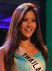 Farung Yuthithum, Miss Thailand 2007, during rehearsals for the Miss Universe 2007 pageant in Mexico City, Mexico